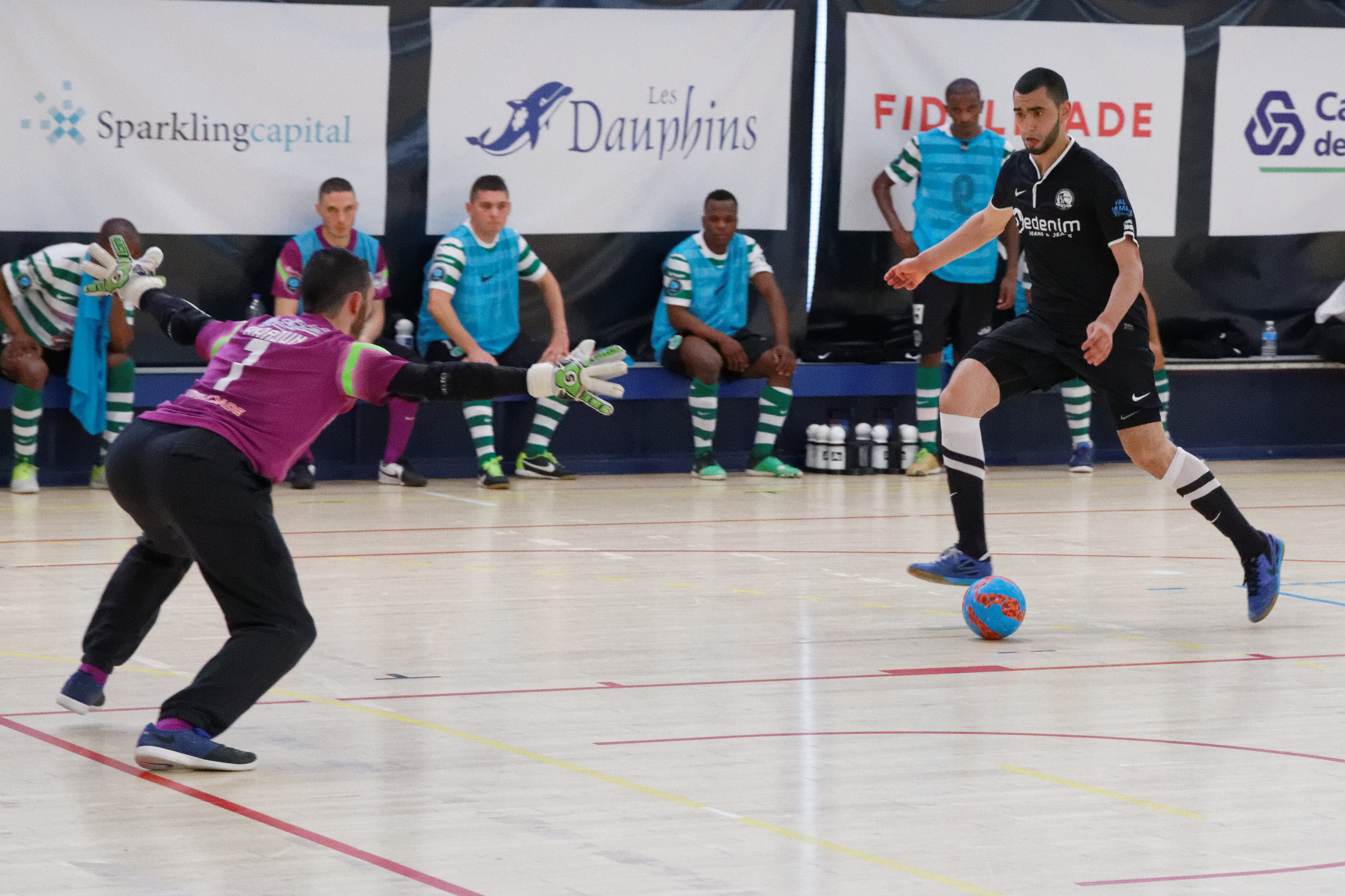 France futsal championship. Play-off. Sporting Club de Paris vs Kremlin-Bicêtre United.